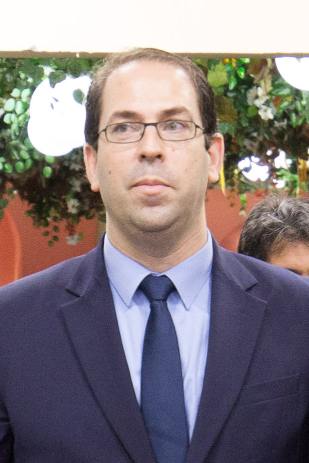 Youssef Chahed This file has been extracted from another file: Youssef Chahed and Houlin Zhao.jpg